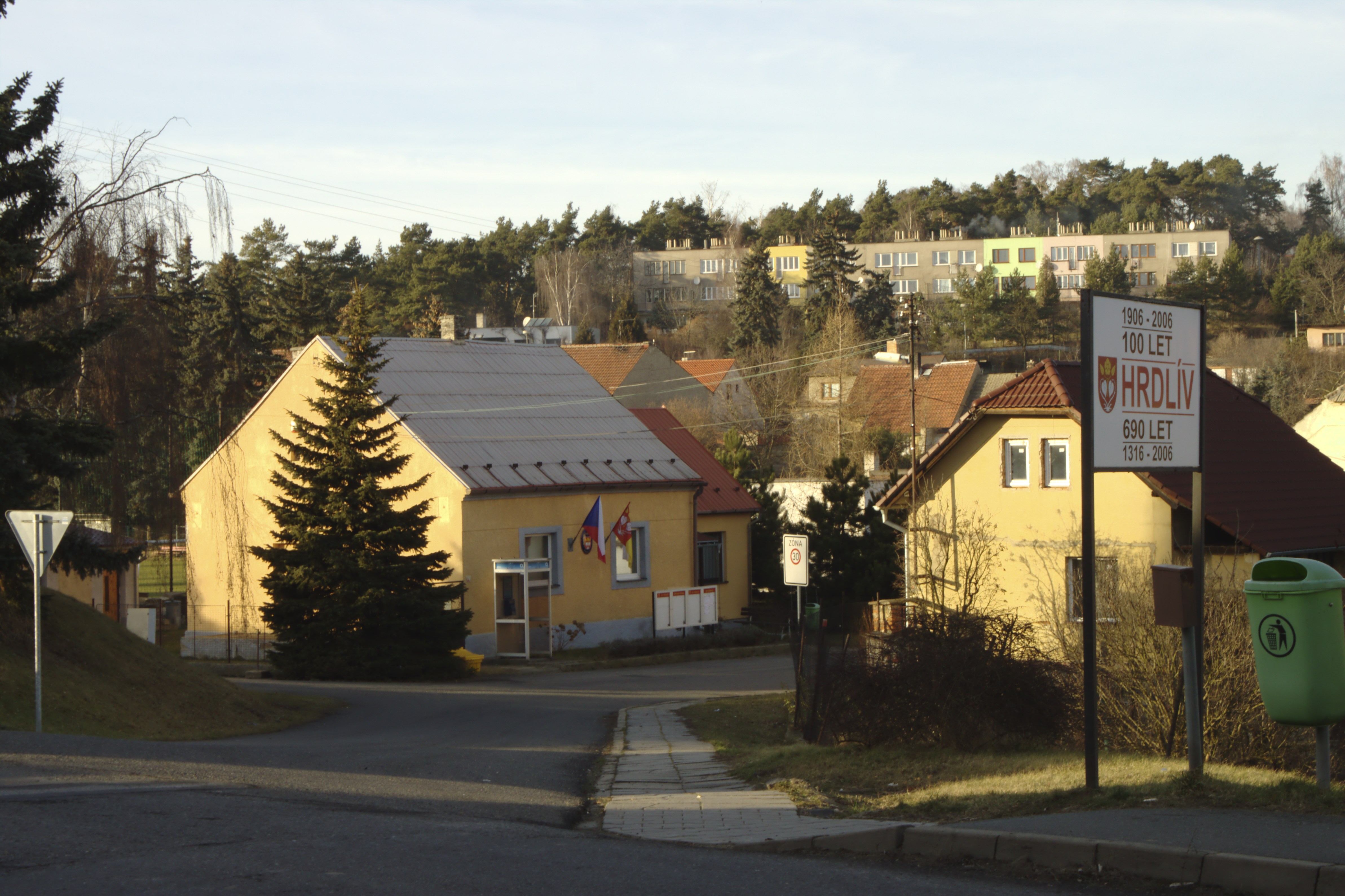 Village of Hrdlív in Kladno District, Central Bohemian Region, CZ